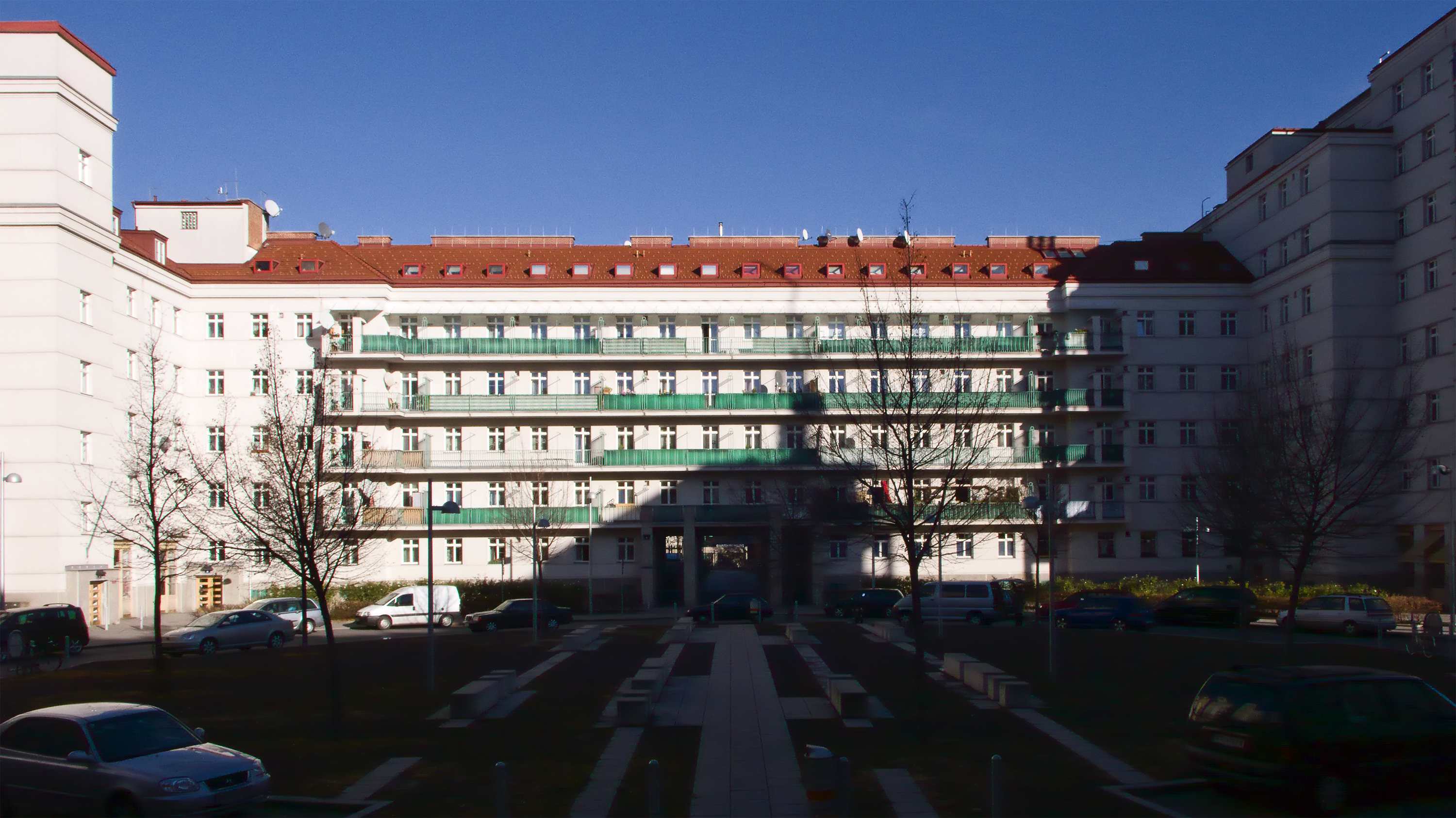 Wohnhausanlage Friedrich-Engels-Platz in Vienna Brigittenau